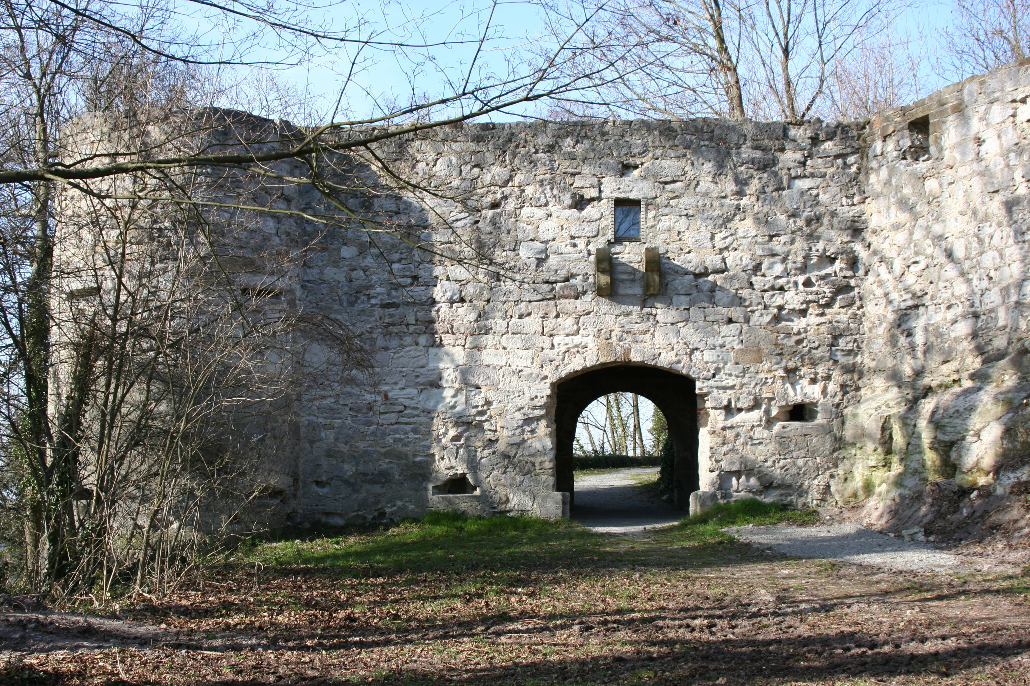 Löwenstein castle ruin. Gate lodge